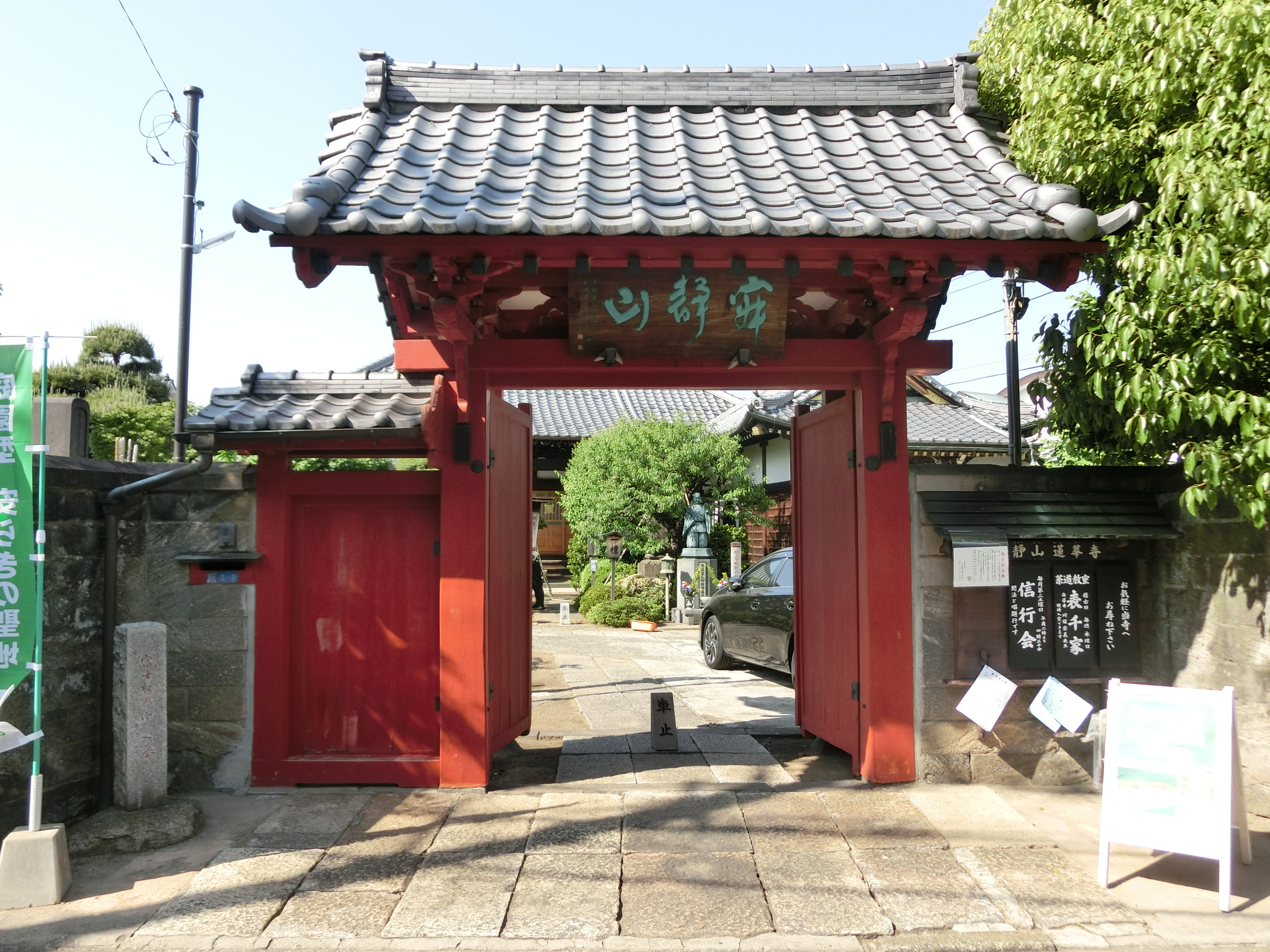 Renge-ji (Taito)